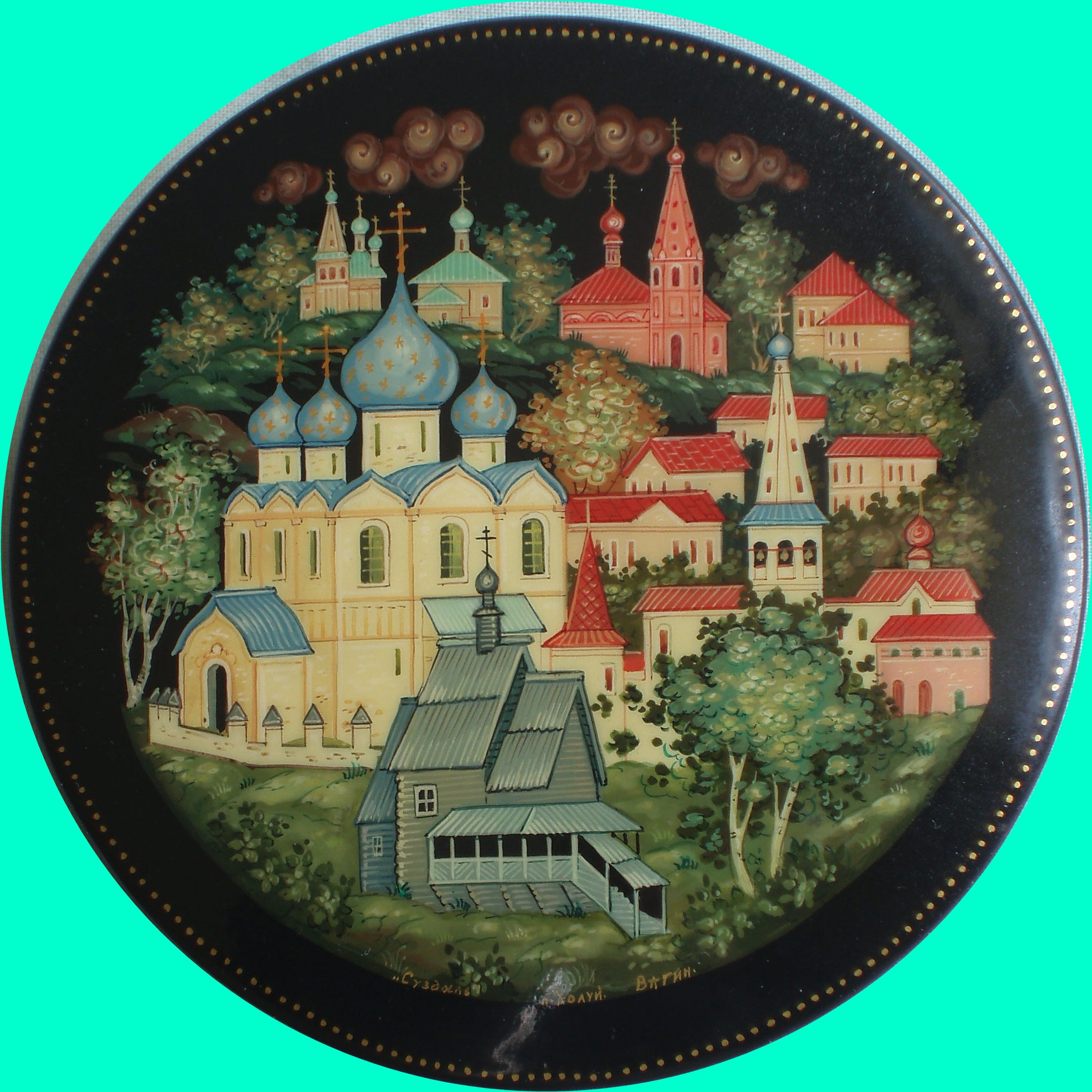 Russian laquered box from Kholui depicting the town of Suzdal